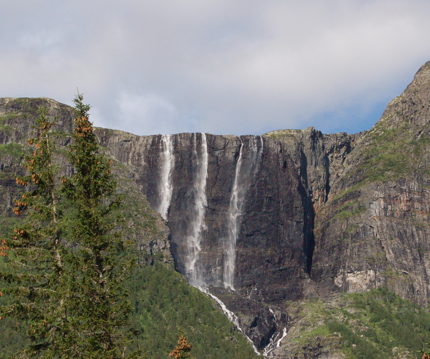 Hydnefossen in Hemsedal, Norway